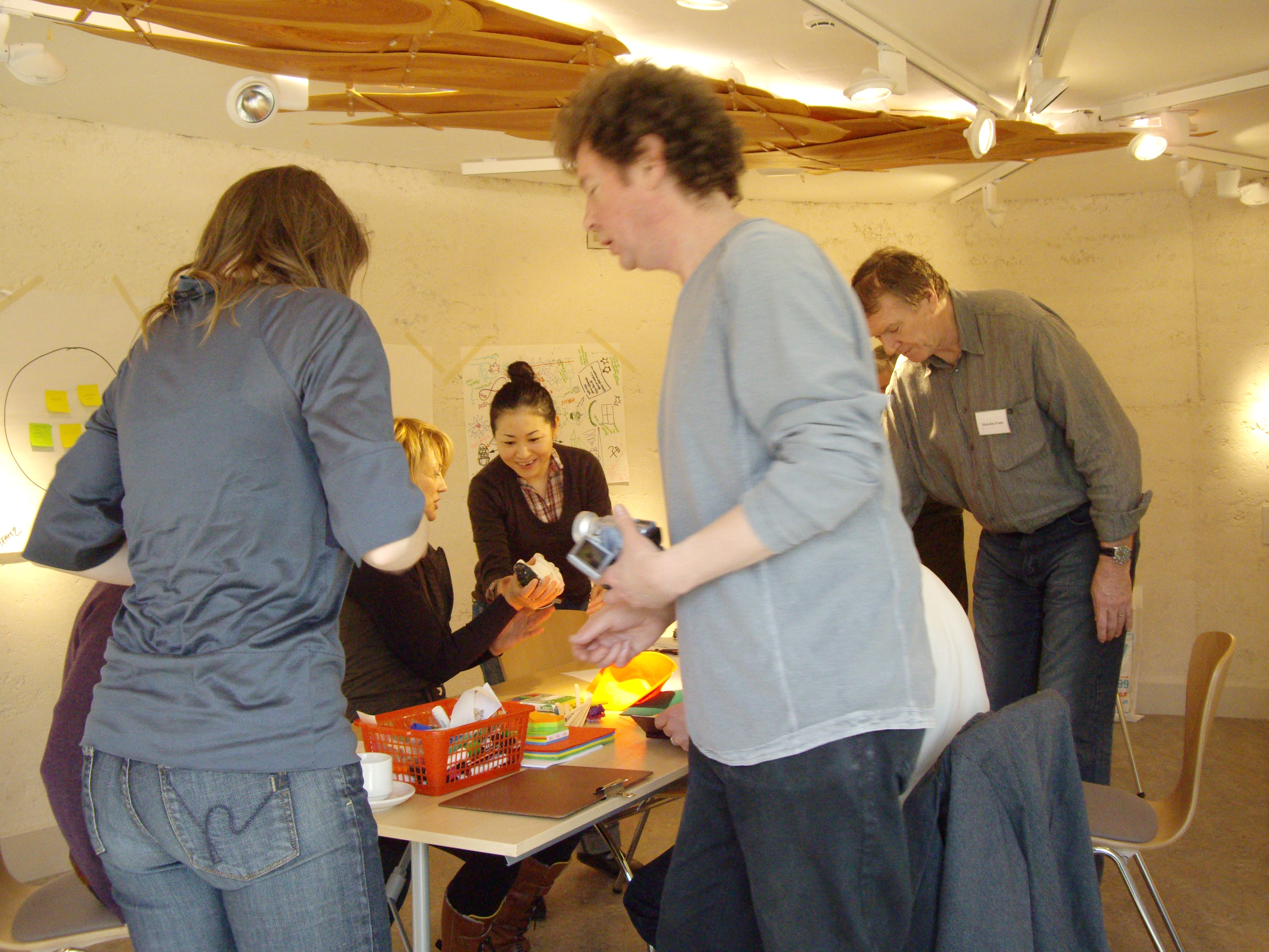 One of the holarchy teams working on a metadesign task